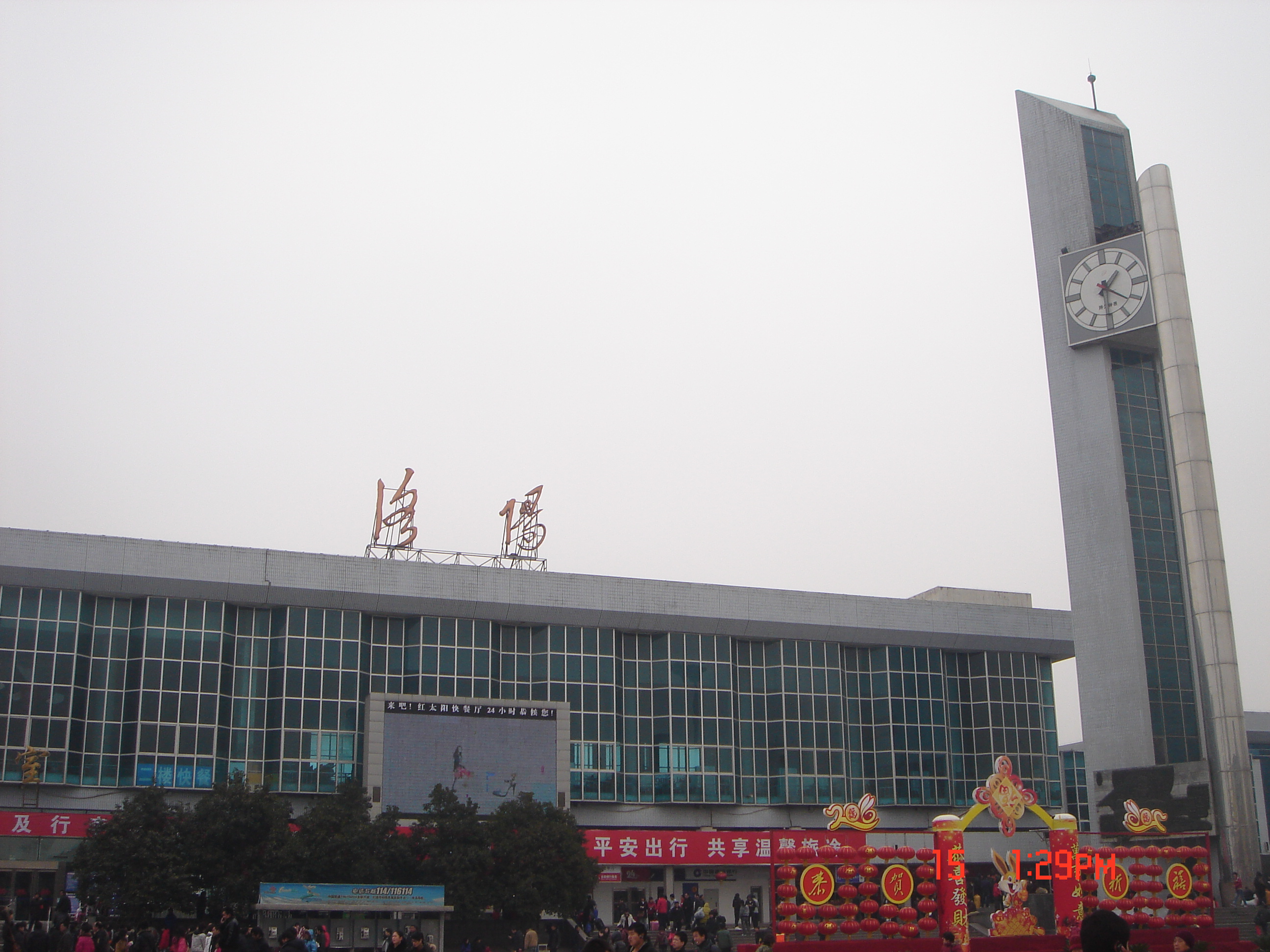 Luoyang Railway Station,Henan Province,P.R.CHINA